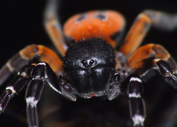 Eresus cinnaberinus (male) in his natural habitat